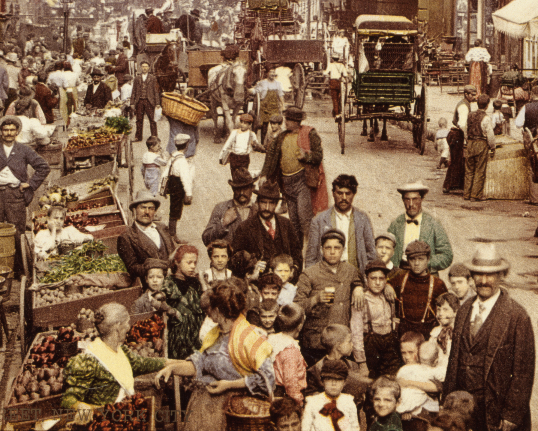 Mulberry Street, New York City. This image belongs to the Category:Photochrom pictures in their original state. This is an unprocessed image. Its purpose is to show the properties of a photochrom print. Please do not modify this image. Modifications will be reverted.